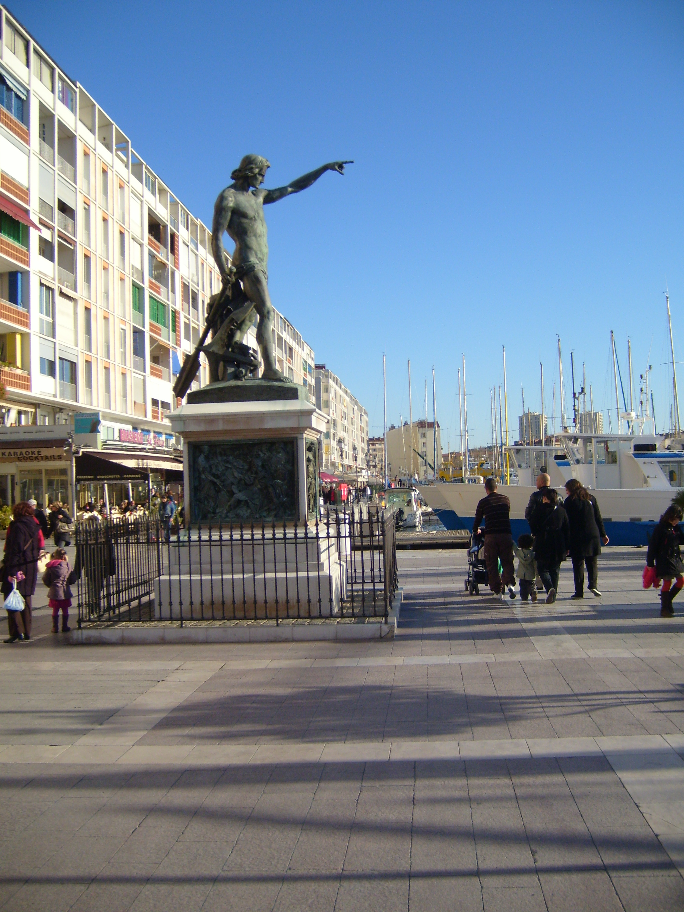 Toulon Waterfront, Quai de Cronstadt